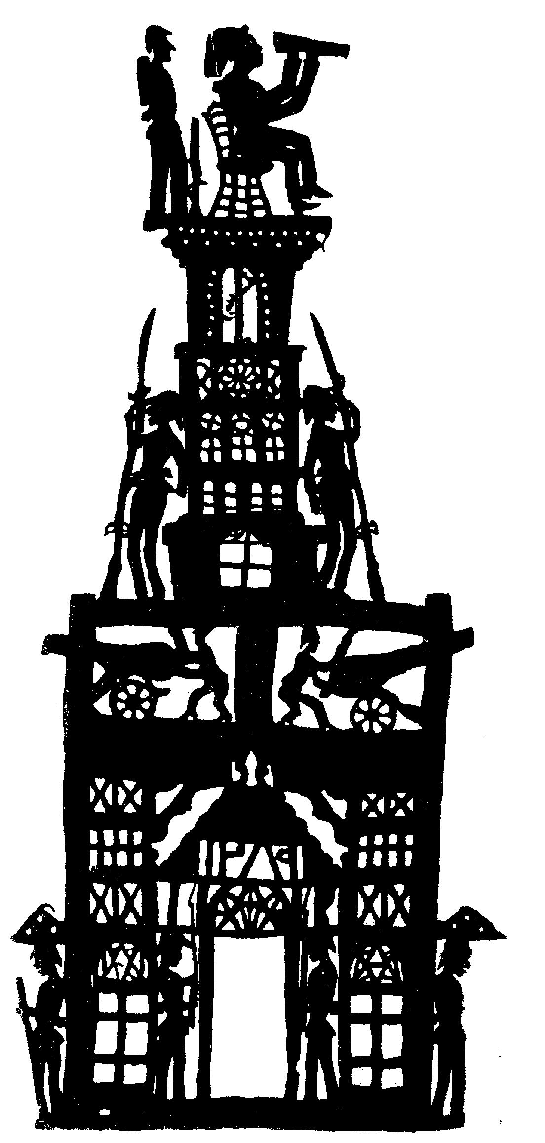 Lighthouse of Alexandria, shadow puppet, Egypt, collected by Paul Kahle 1909